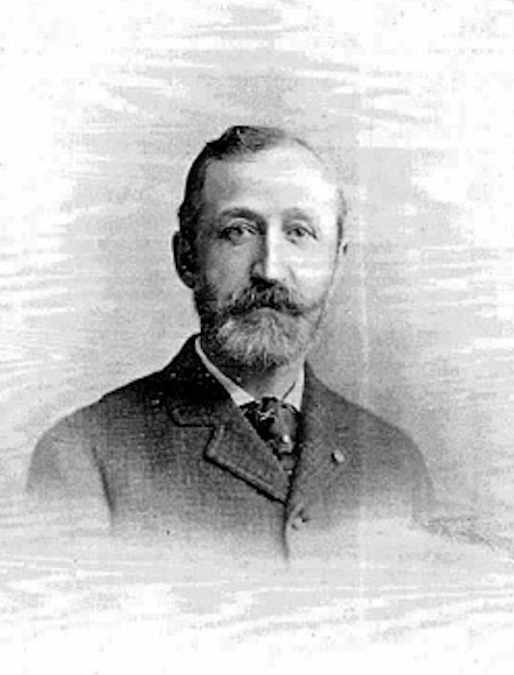 Medal of Honor winner